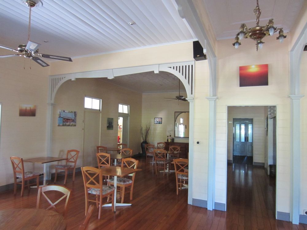 Eden House Restaurant (2015) - interior